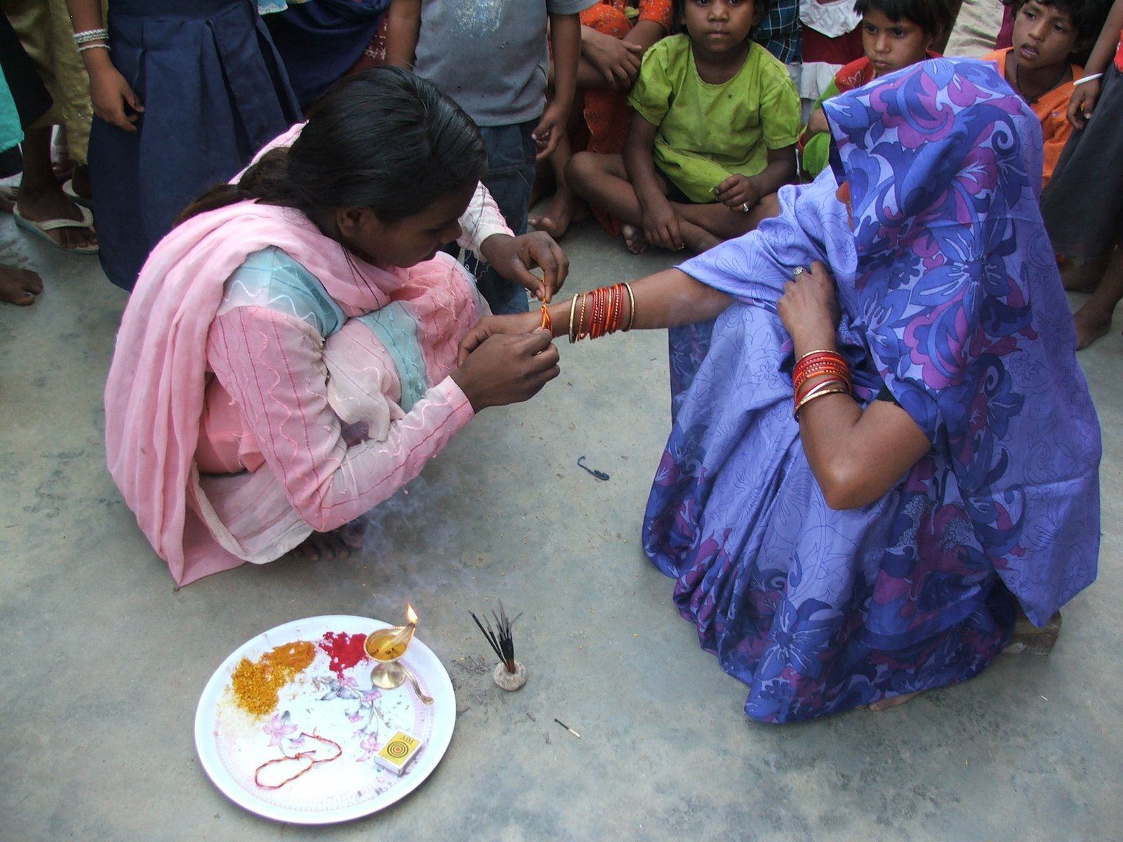 A girl is tieing rakhi (Rakshasutra) on her mother's wrist to celebrate the festival of Rakshbandhan in a village Lahree, Jabalpur district, India.